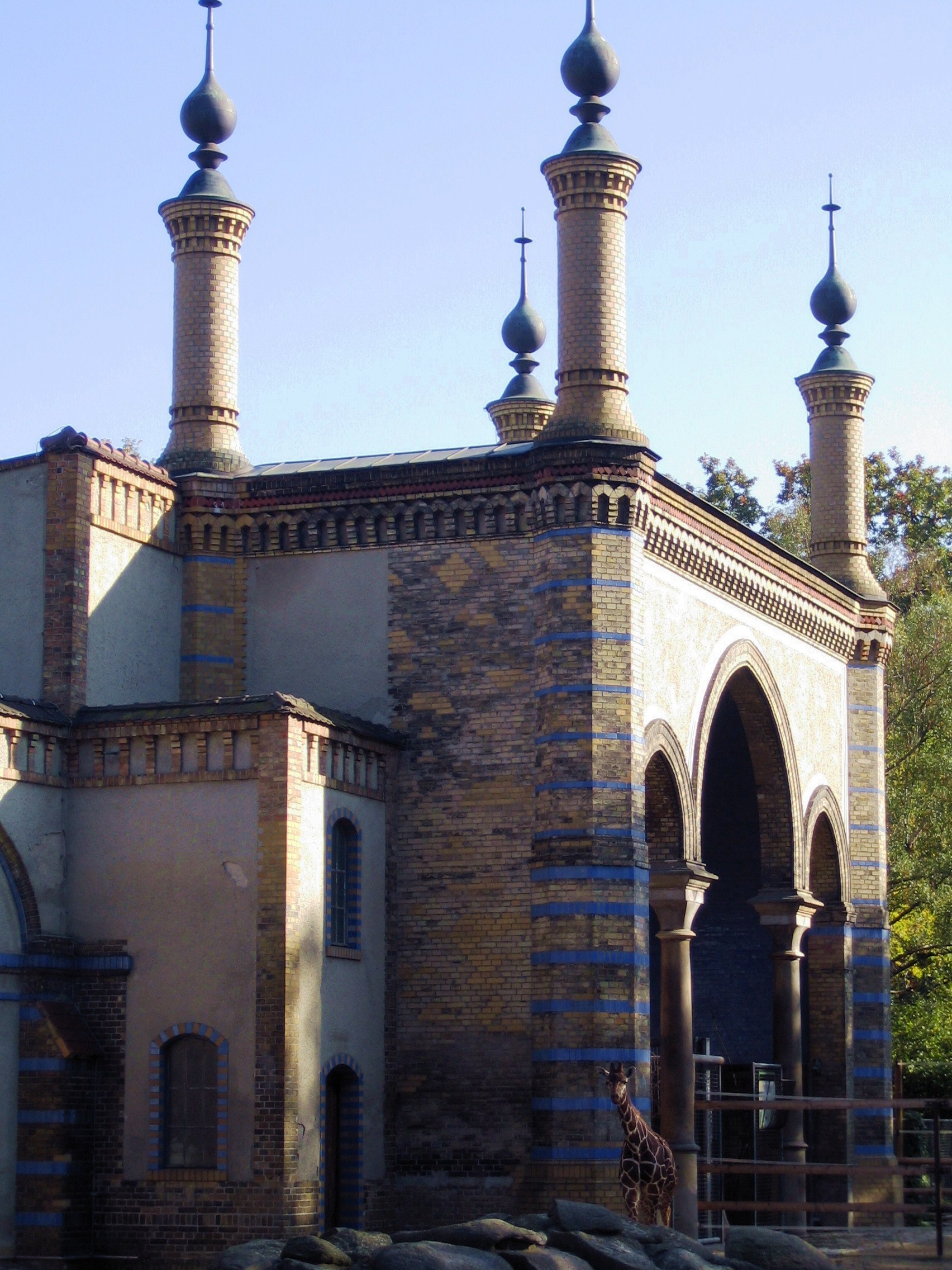 Zoo Berlin, the so called "Antilopenhaus" (historical building).